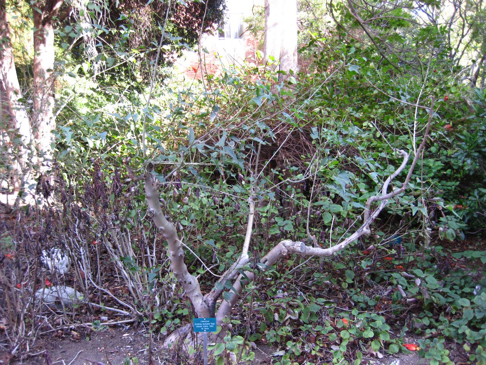 Photographed Mildred E. Mathias Botanical Garden at UCLA (Los Angeles, California) in November